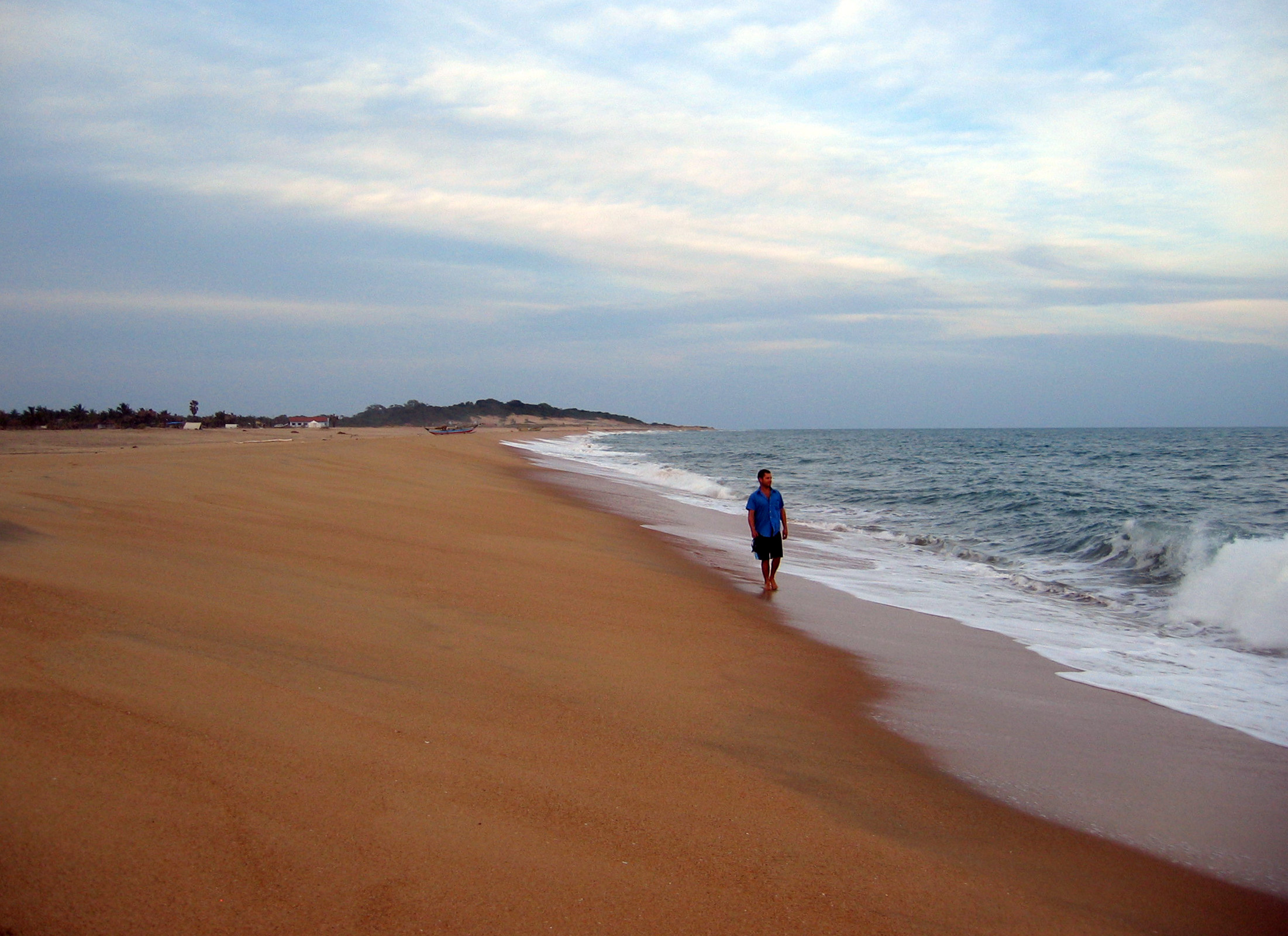 Arugam Point, seen from the south. The beach of Alligator rock. March 2005. Beautiful Sri Lanka